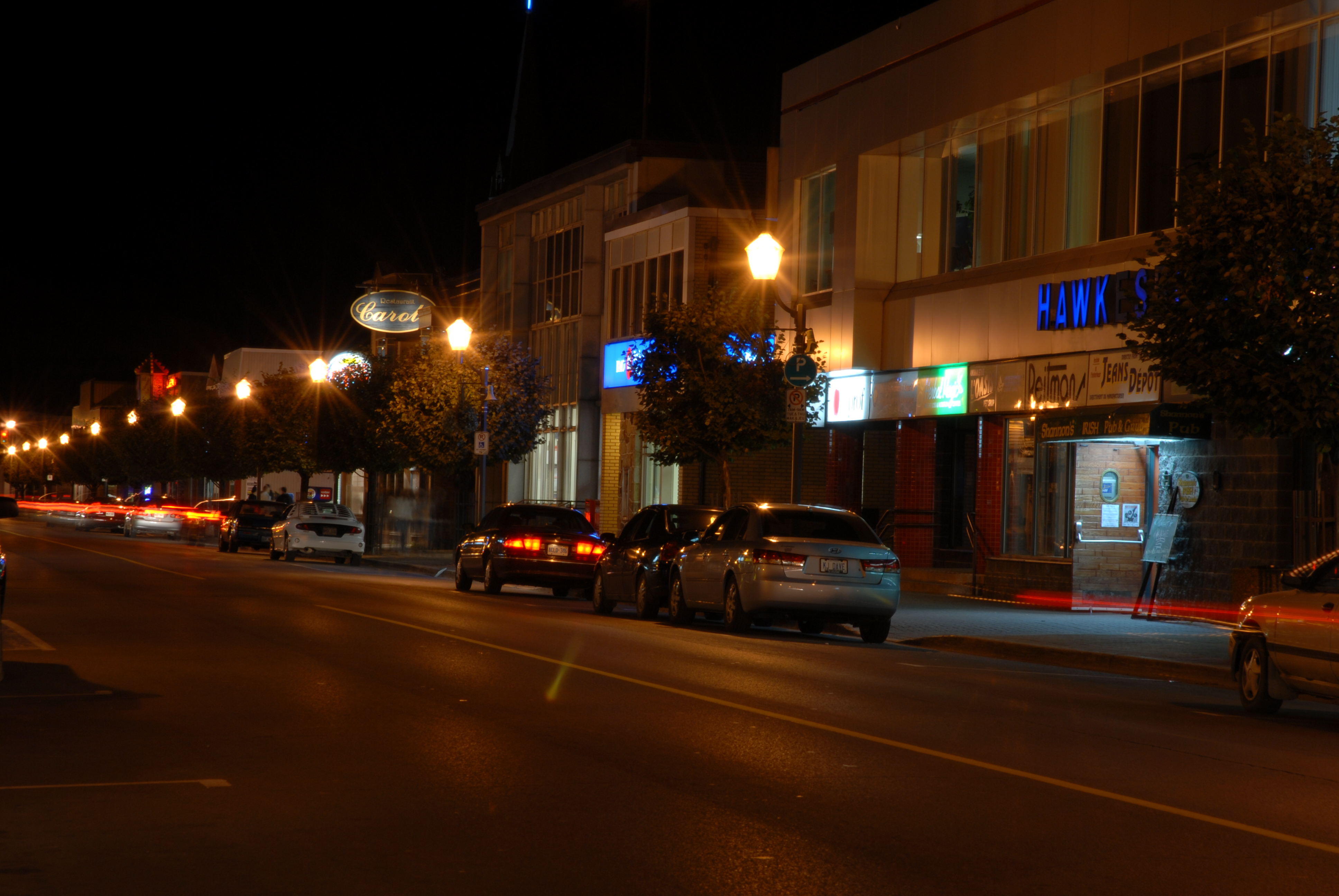 Town of Hawkesbury, Ontario - Main Street at night